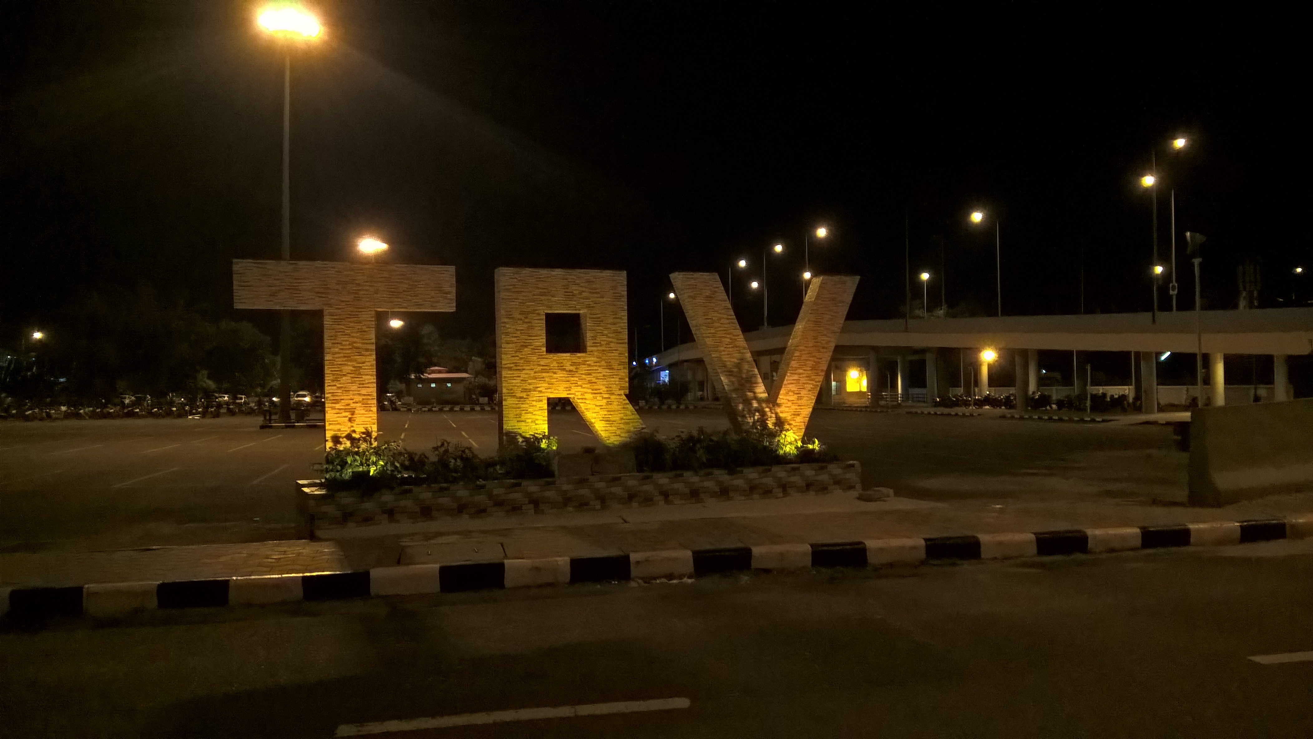 New IATA 3 Letter code Placed at Trivandrum International Airport Terminal 2